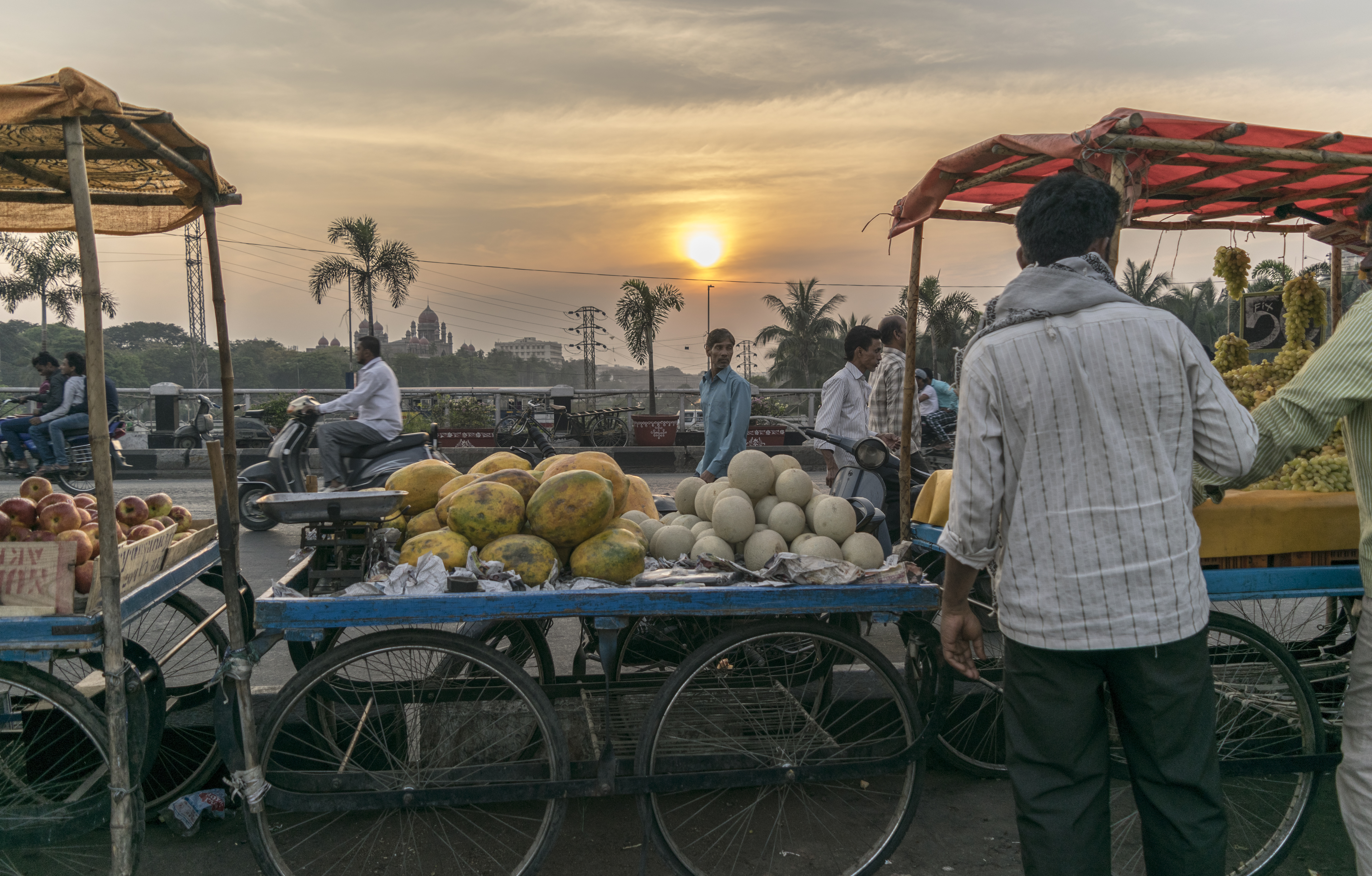 Fruit venders